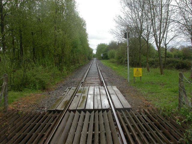 Radway, MoD railway View South from Banbury Road along the extensive (34km) railway network of MoD Kineton, serving spacious ammunition storage and joining the public network at Fenny Compton.